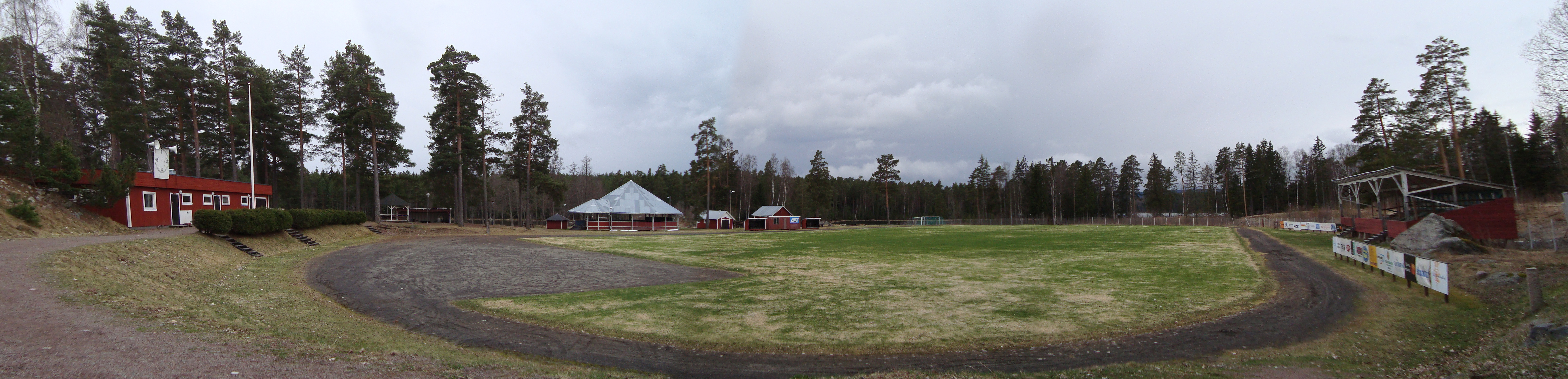 Photomerged picture over bandy and association football arena Tansvallen, Grycksbo, Falun Municipality, Sweden